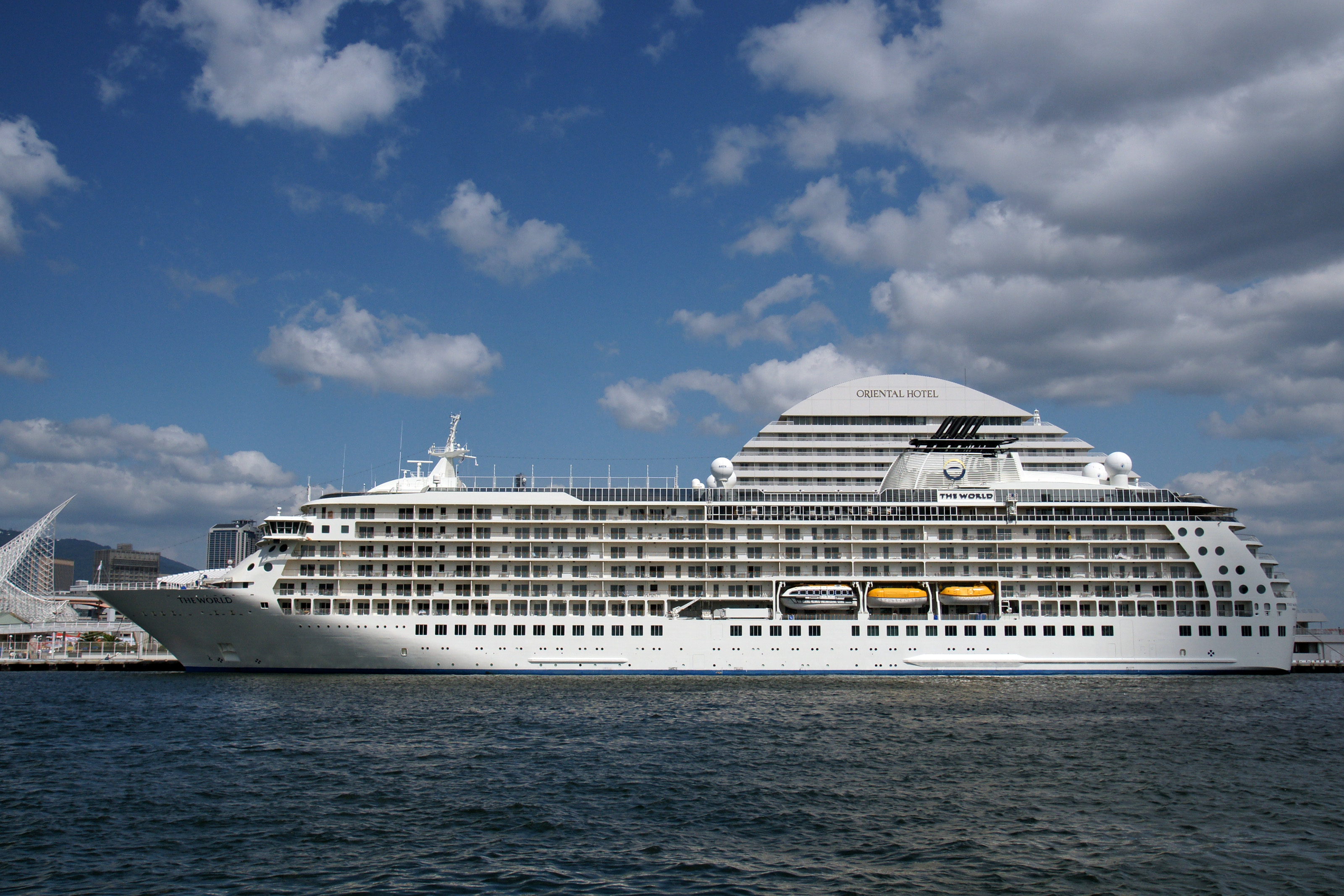 "The World" who anchors at the wharf "Nakatottei" of the Kobe harbor (Kobe, Hyogo prefecture, Japan)